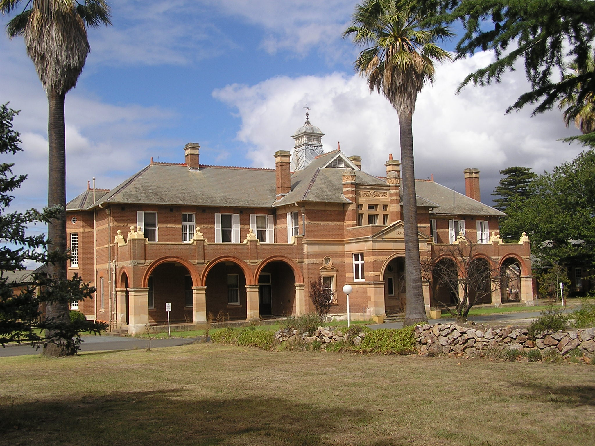 Goulburn, New South Wales, Australia Kenmore Hospital- main buildings from 1894 designed by the Colonial Architect Walter Libert Vernon. Picture taken by AYArktos